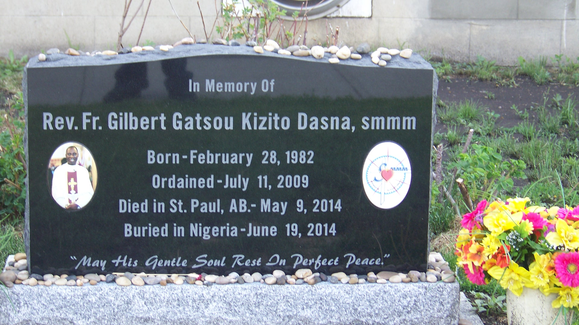 Father Gilbert Dasna Memorial- St. Paul Cathedral (St. Paul, Alberta)